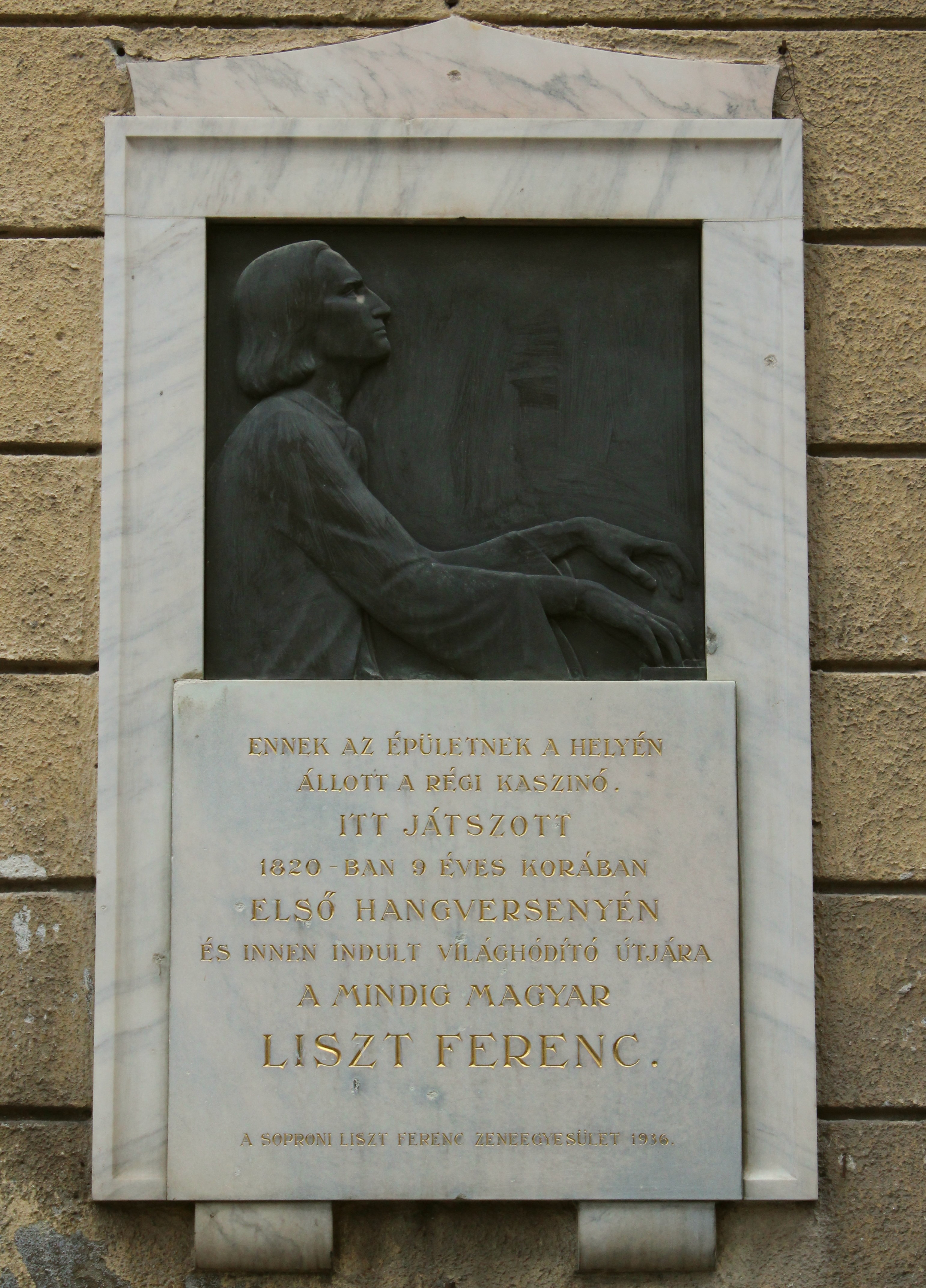 Commemorative plaque of Ferenc Liszt. (Hungary, Sopron, Petőfi tér 3.)